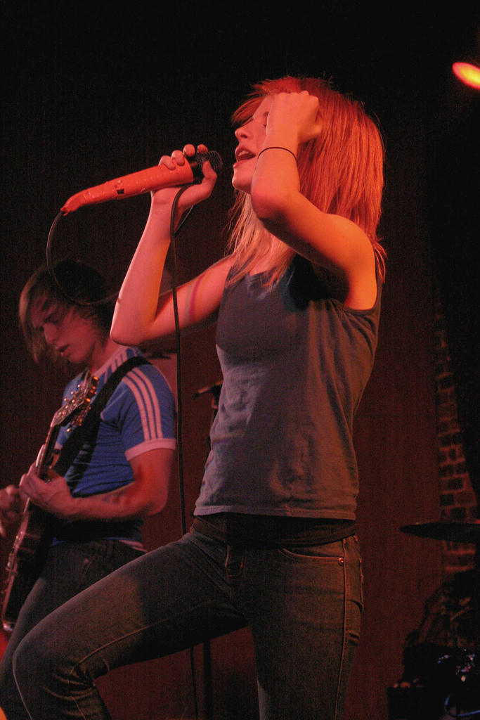 Hayley Williams of Paramore.